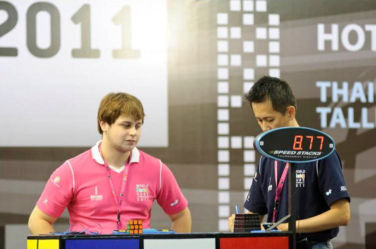 Rowe Hessler competing in the Rubik's Cube World Championships 2011 in Bangkok, Thailand